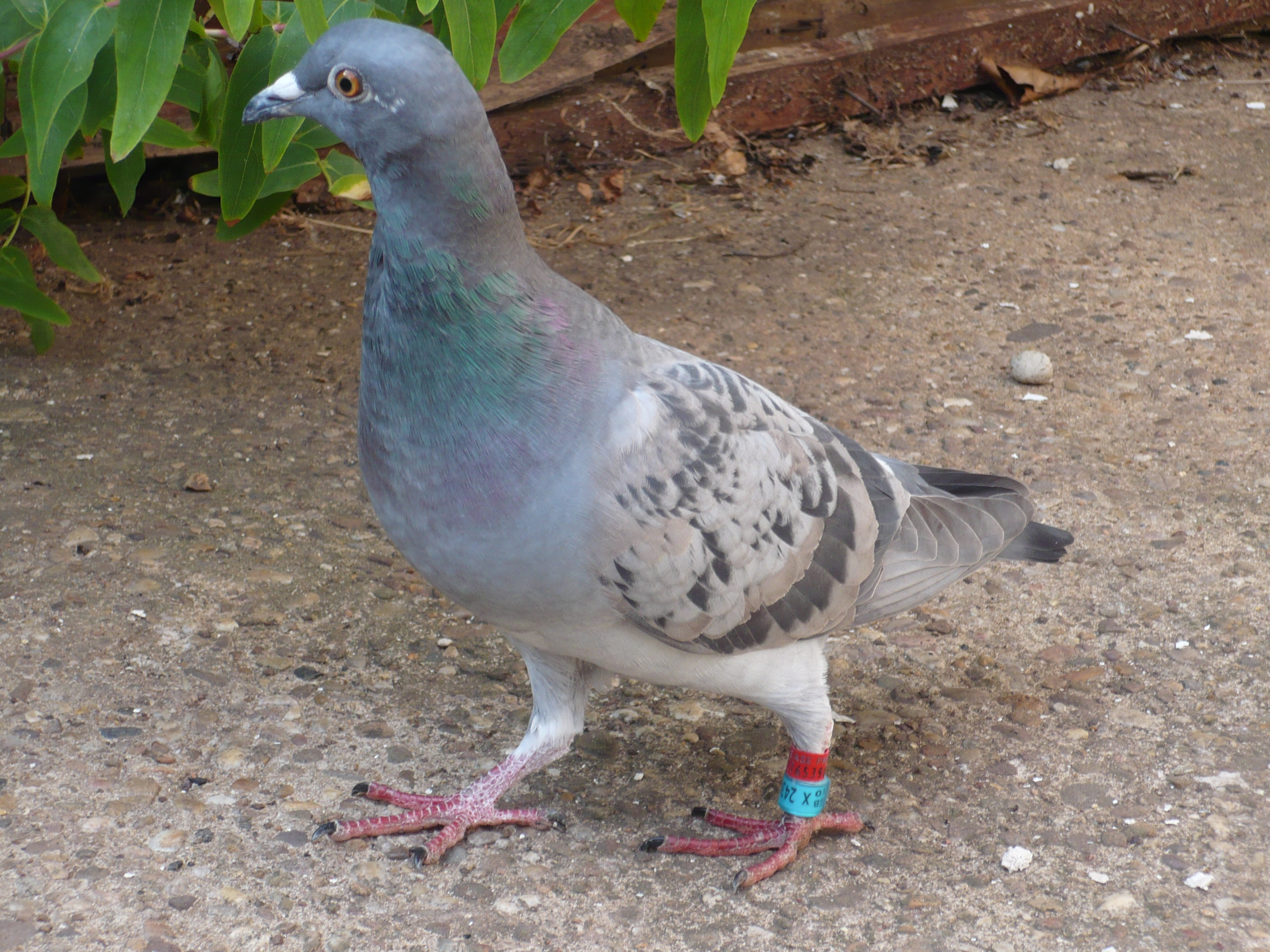 A homing pigeon on a path outside, 2010